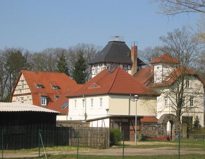 Castle Bärenthoren in Bärenthoren in the nature park Fläming. The village Bärenthoren is part of the municipality Polenzko and belongs to the district Anhalt-Zerbst, state Saxony-Anhalt, Germany. The castle houses today the German Red Cross-carecenter Marie von Kalitsch.